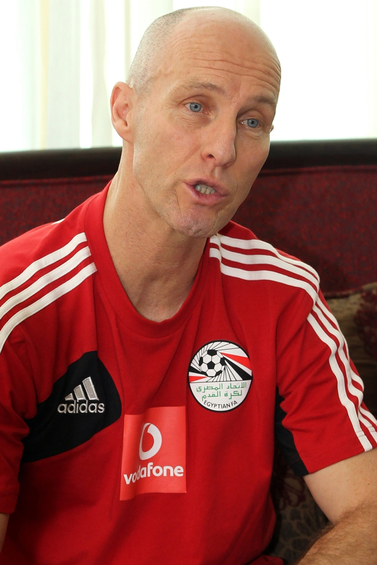 Egypt national football team's American coach Bob Bradley during a visit to Doha.